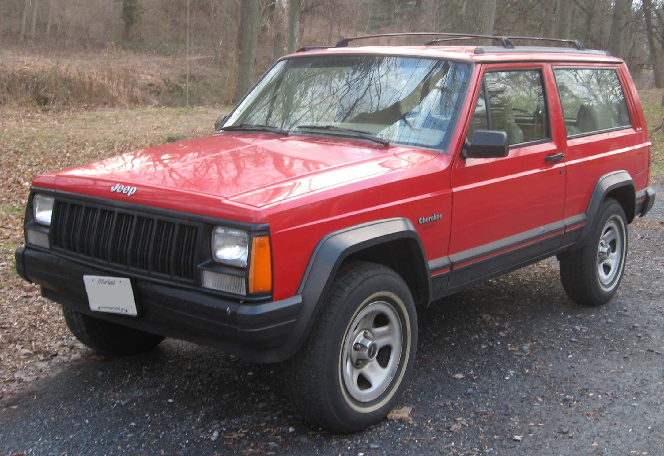 1984-1996 Jeep Cherokee photographed in Kensington, Maryland, USA.